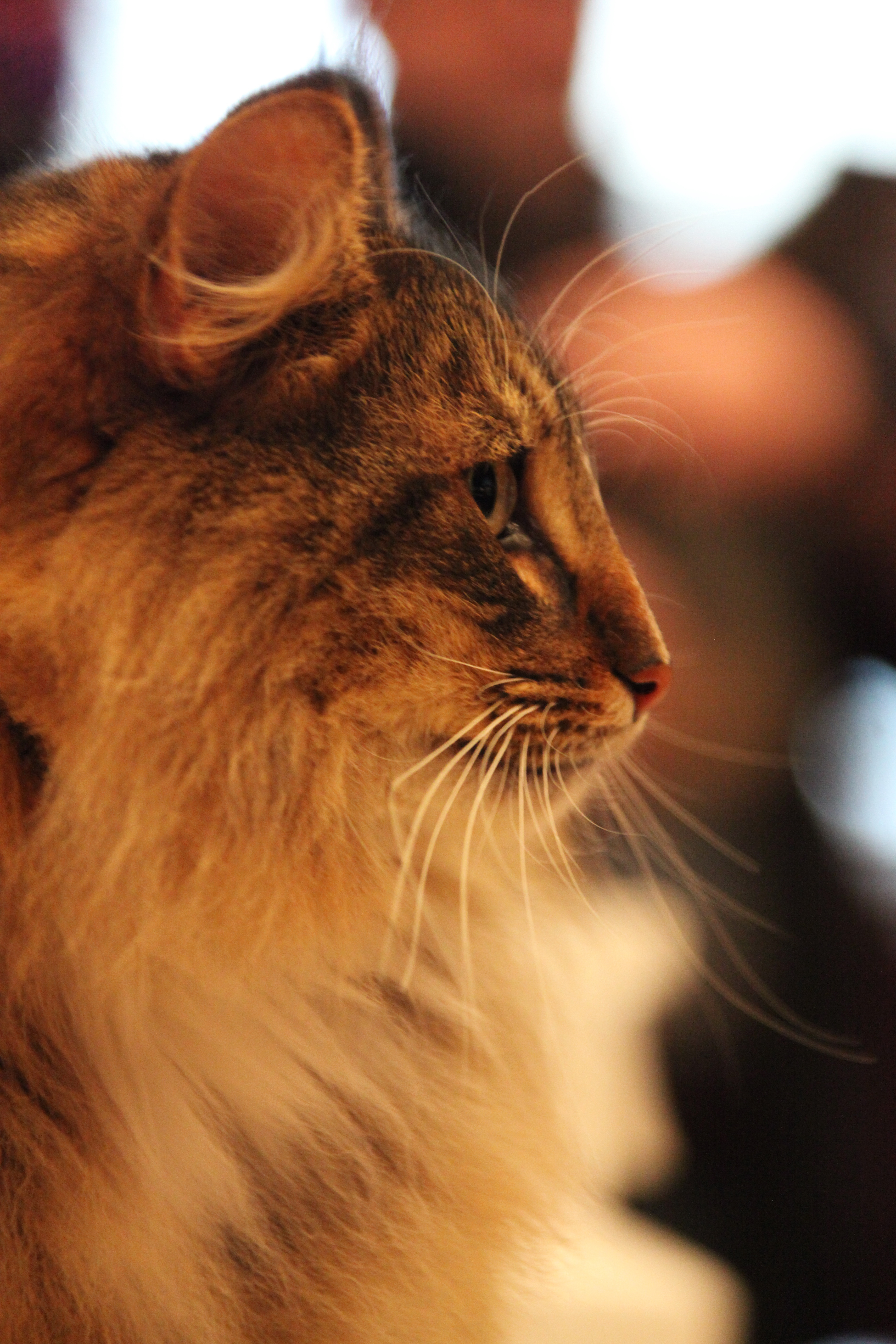 Face shot (profile) of Norwegian Forest Cat named Ch. Rockringen's Jumpin' Jack Flash from Titran's Norsk Skogkatt Cattery